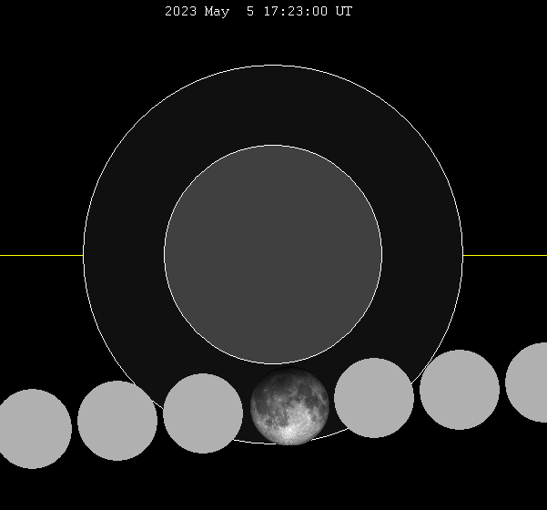 May 2023 lunar eclipse chart of moon's total lunar eclipse path through the earth's shadow. thumb